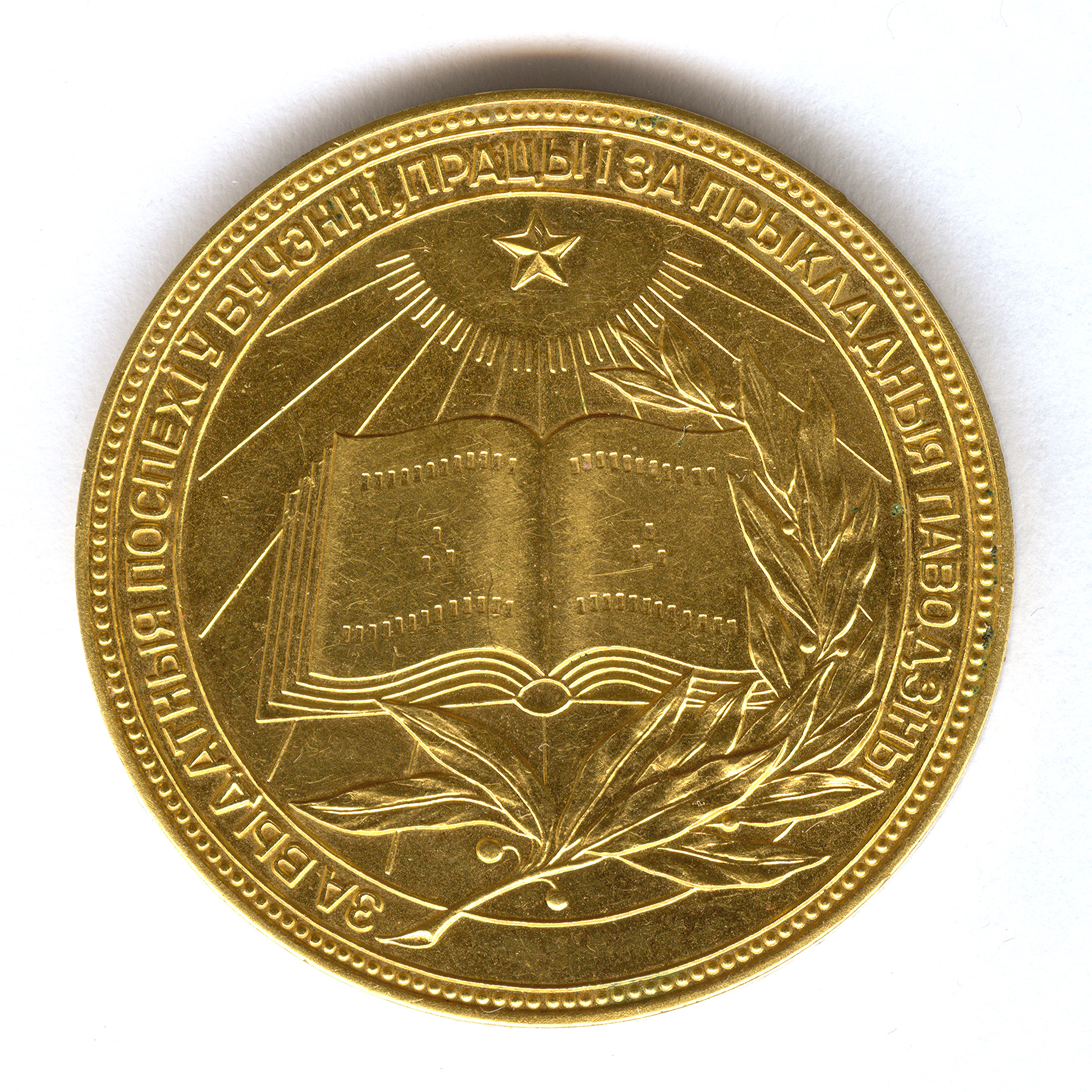 Golden medal of High achiever shool 1962 year. USSR, BSSR (Belarus)